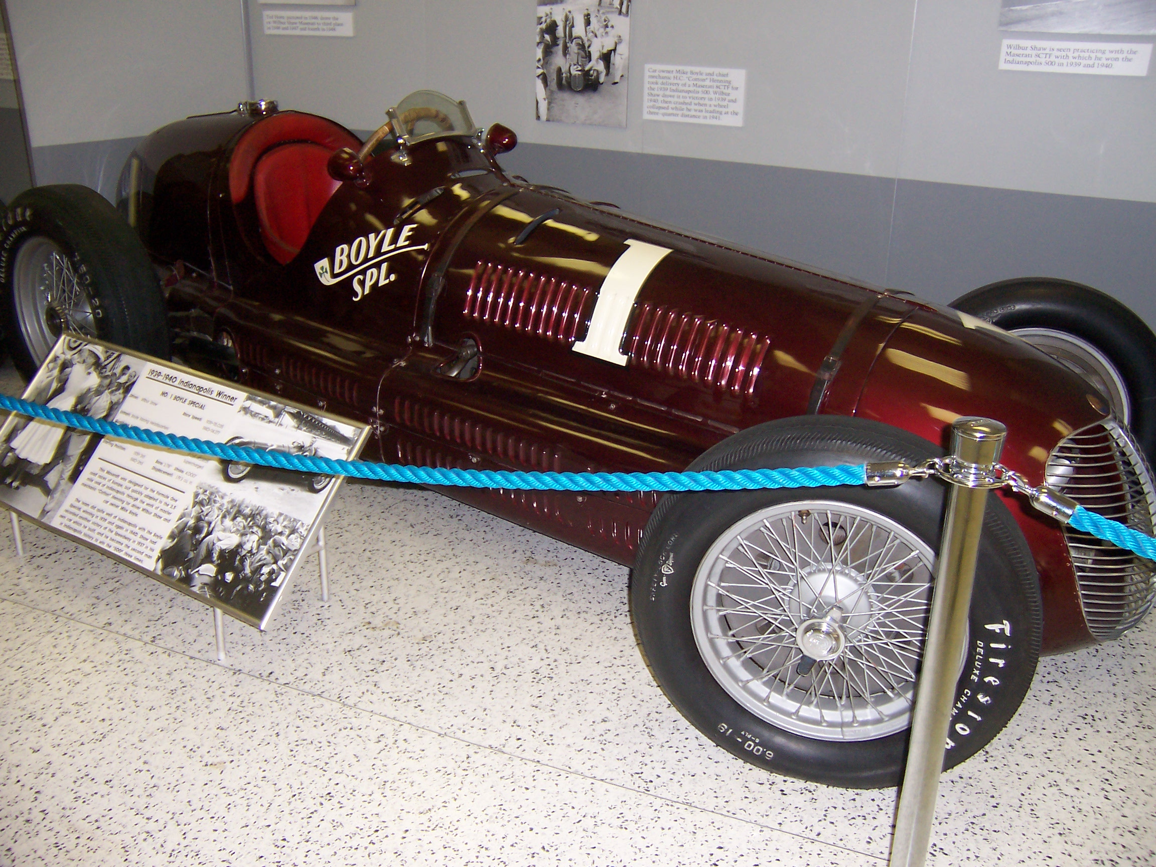 Image of the winning car of the 1939 and 1940 Indianapolis 500 (Wilbur Shaw). Photo was taken at the Indianapolis Motor Speedway Hall of Fame Museum, during the month of May 2011, at the 100th Anniversary "Ultimate Indianapolis 500 Winning Car Collection."